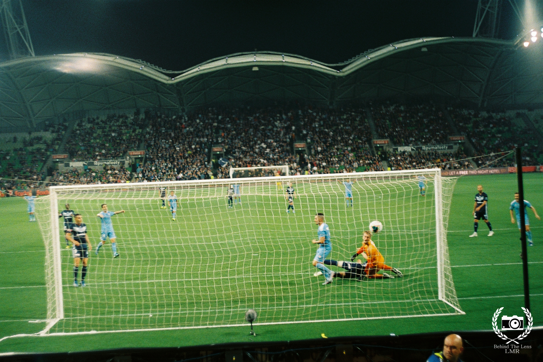 Jamie Maclaren Scores against Melbourne Victory 07.02.20